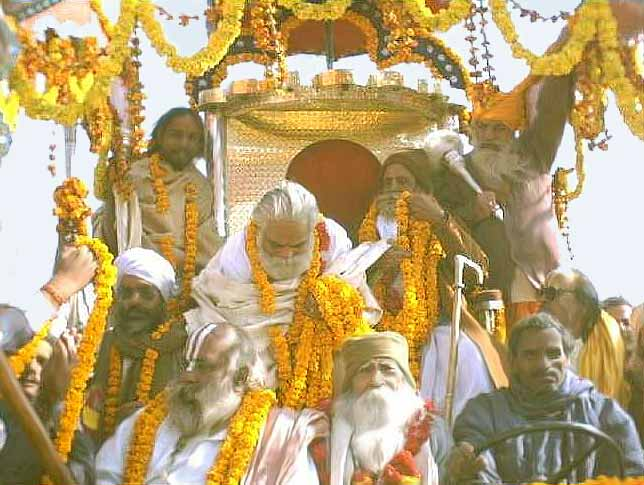 by Hanumandas - Car at the procession,Nirmohi Akhada - Kumbha Mela 2001, January 29